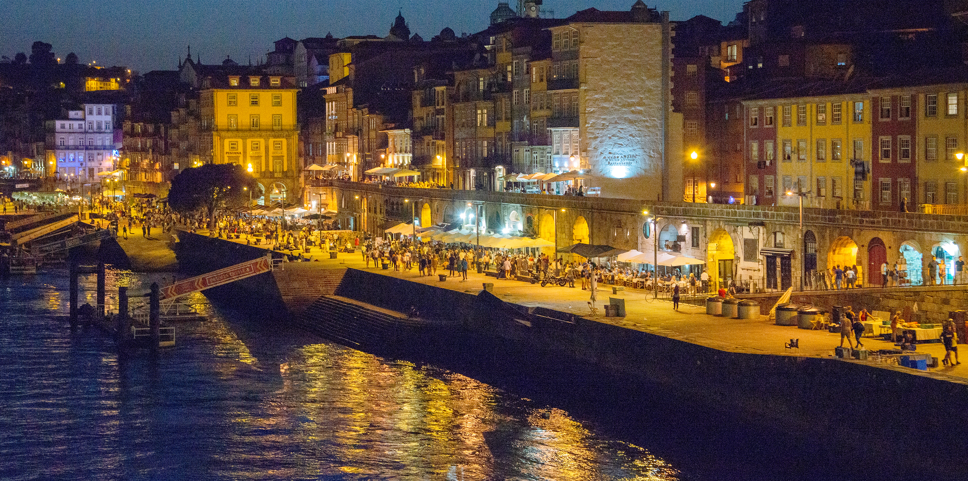 Porto's riverside quarter, known as the Ribeira, is a hub for tourists